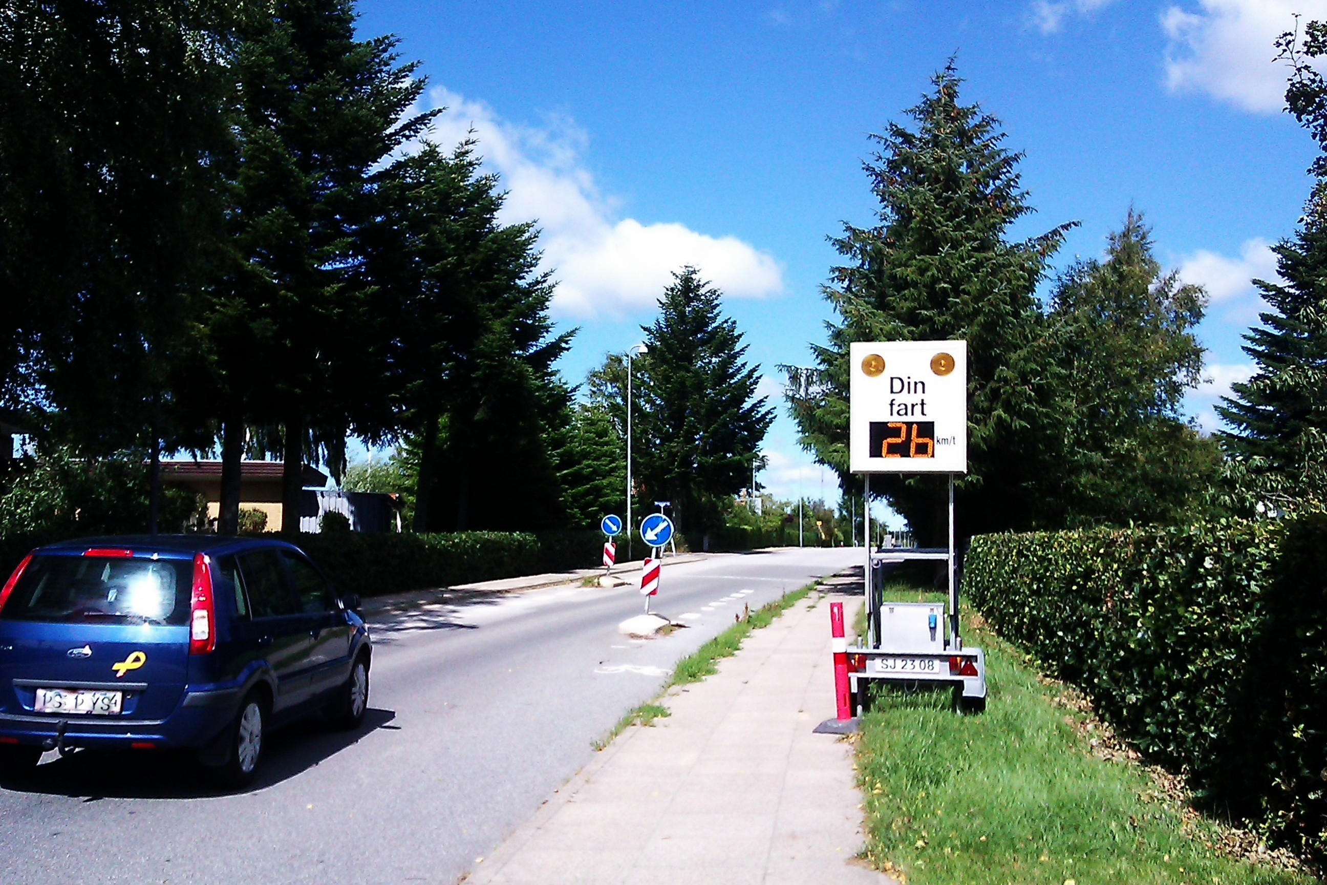 A traffic speed sensor in Denmark. Din fart means "Your speed".